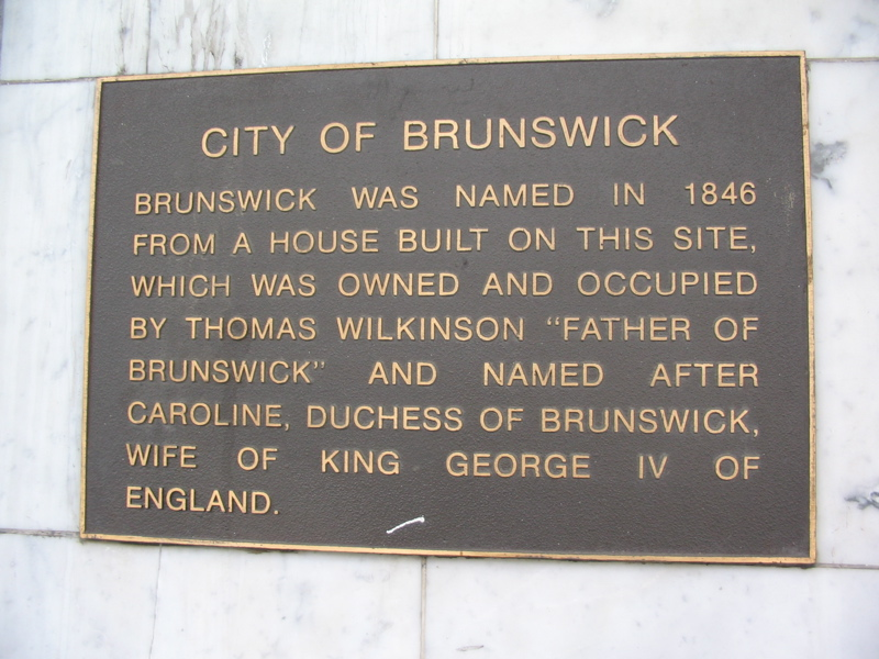 Plaque marking the site of Thomas Wilkinson's house, Brunswick , Victoria, Australia.